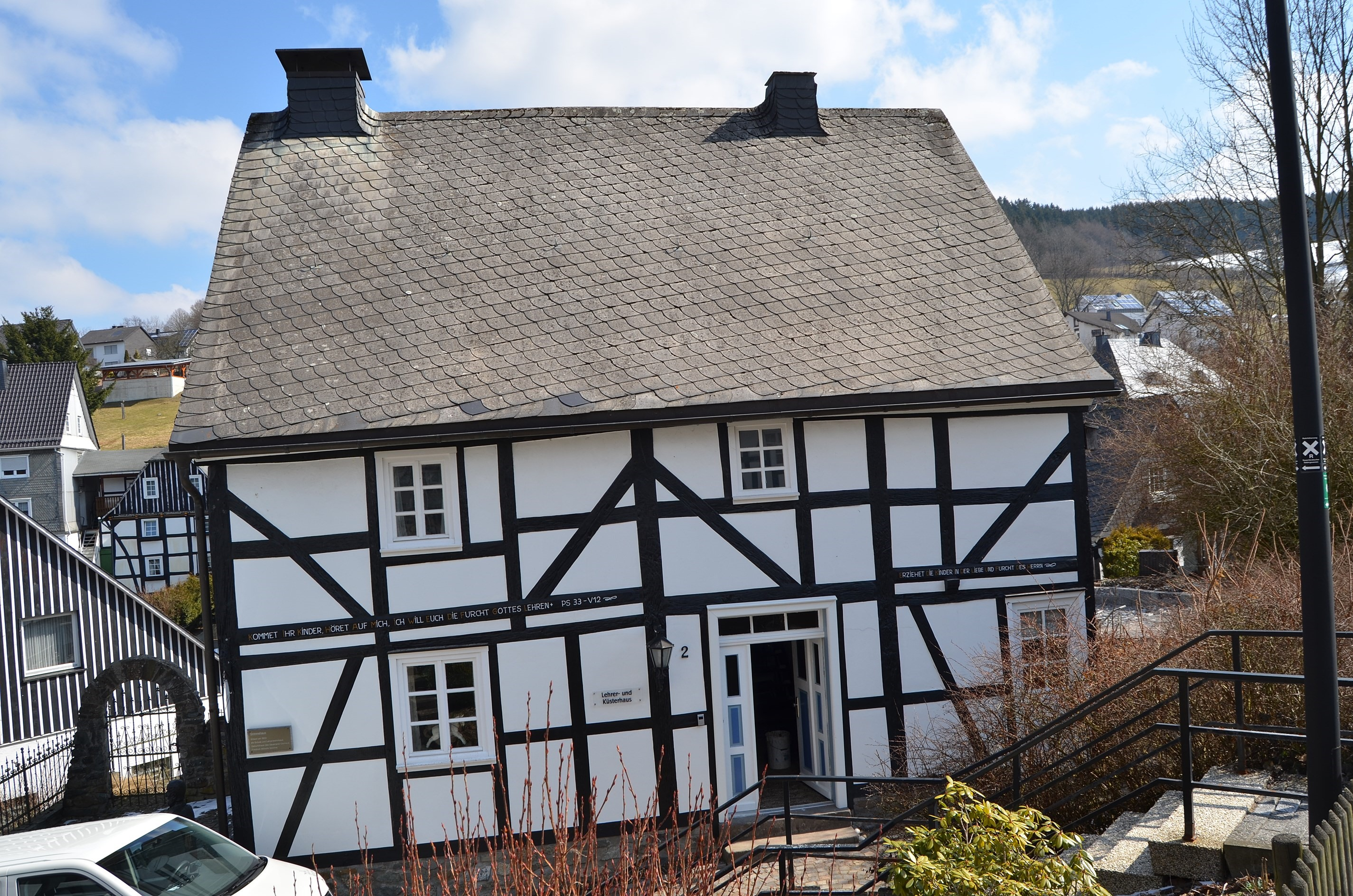 This image shows a heritage building in Germany, located in the North Rhine-Westphalian city Olsberg. This photograph was taken with a Nikon D7000 Olsberg, Assinghausen, Brunnenweg 2, ehem. Schulgebäude, Geburtshaus von Friedrich Wilhelm Grimme